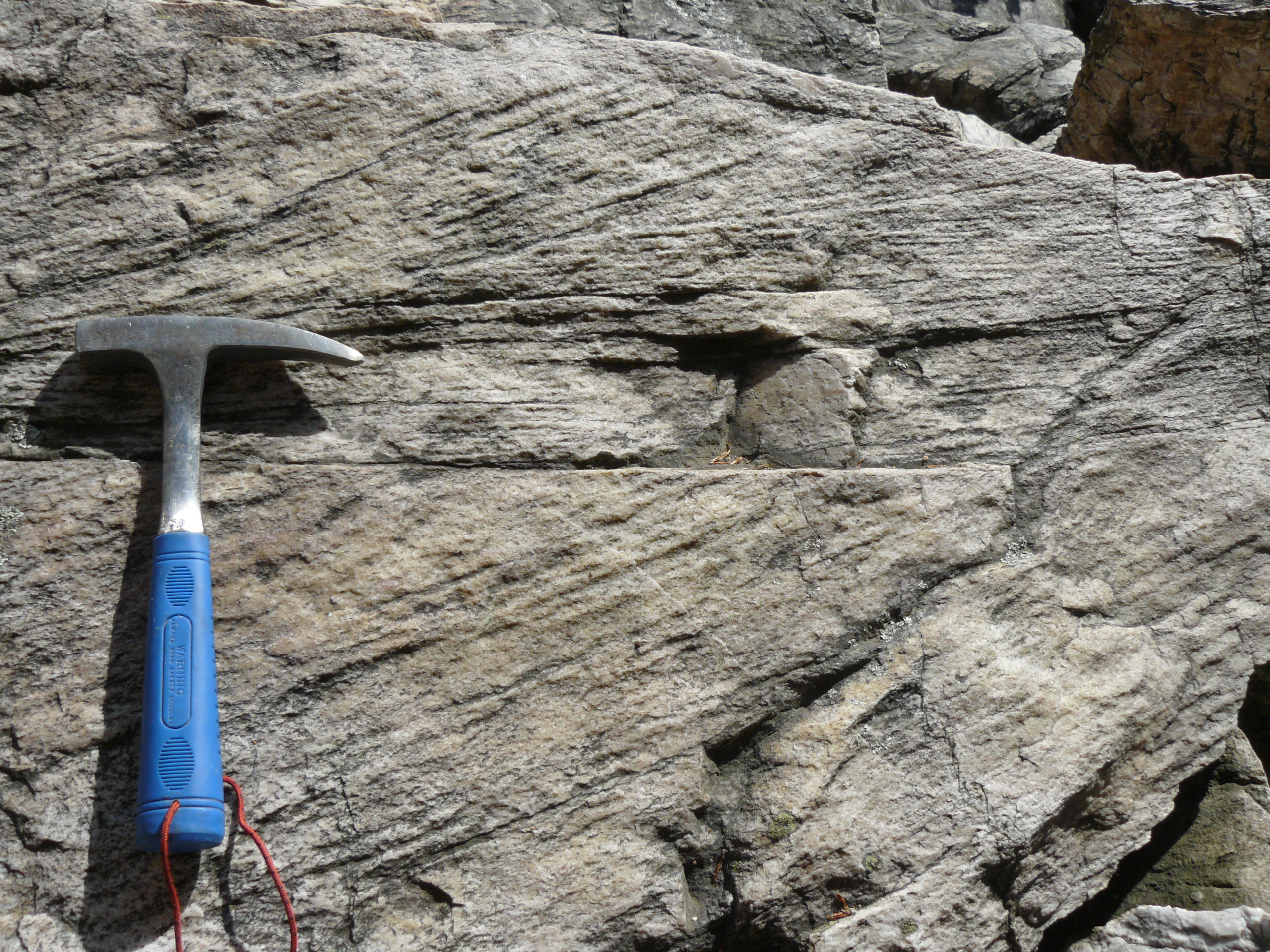 Cross-bedding in the Triassic quartzarenites of the Lúžna Formation, the Tatric unit, Western Carpathians. Photo taken near Traja jazdci (687m) in the Melé Karpaty Mts. Northwest of city of Modra. Geological hammer is 28cm long.